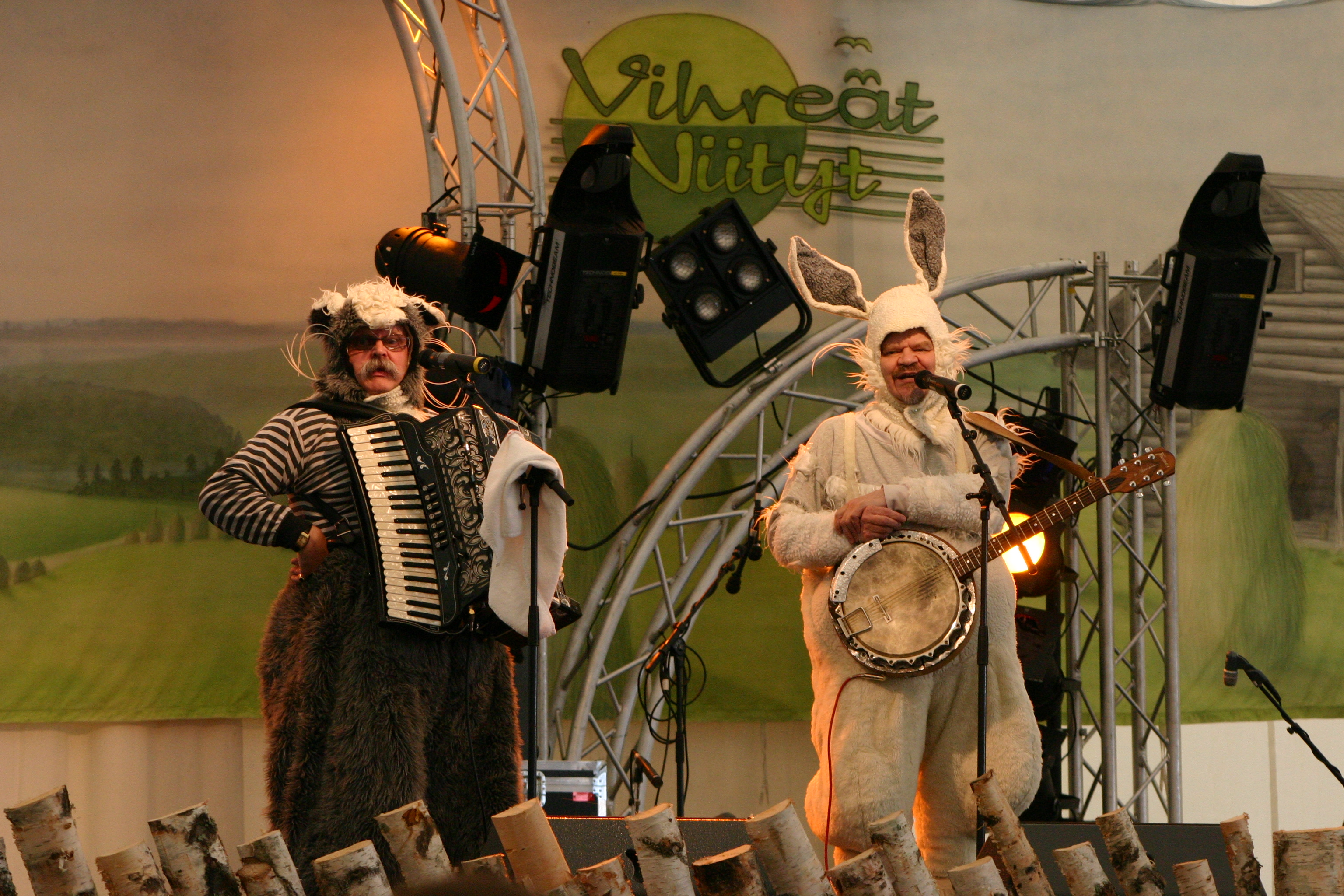 Gommi ja Pommi in Vihreät Niityt music festival in the summer 2004.